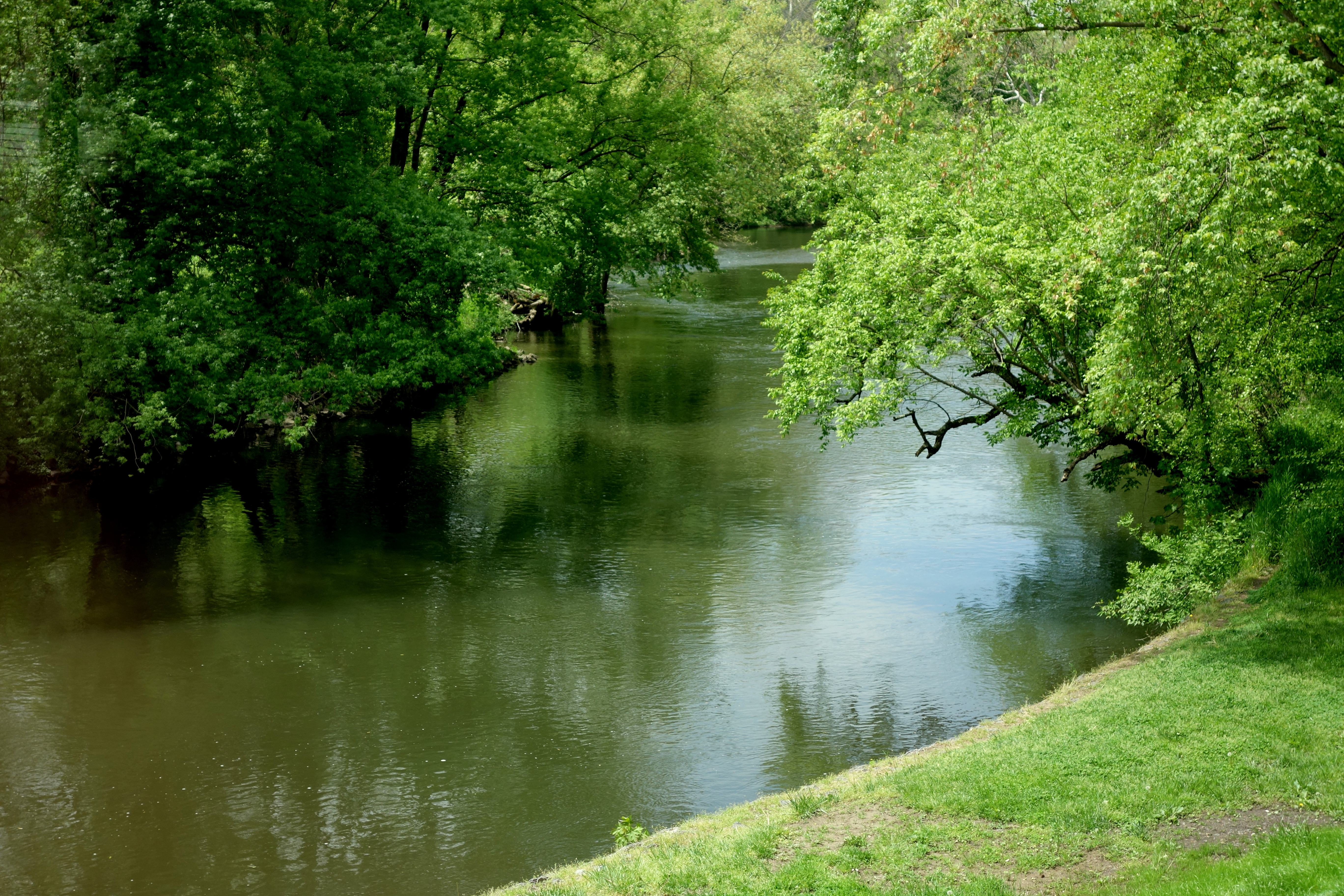 Brandywine Creek at the Brandywine River Museum, U.S. Route 1, Chadds Ford, Pennsylvania, USA.